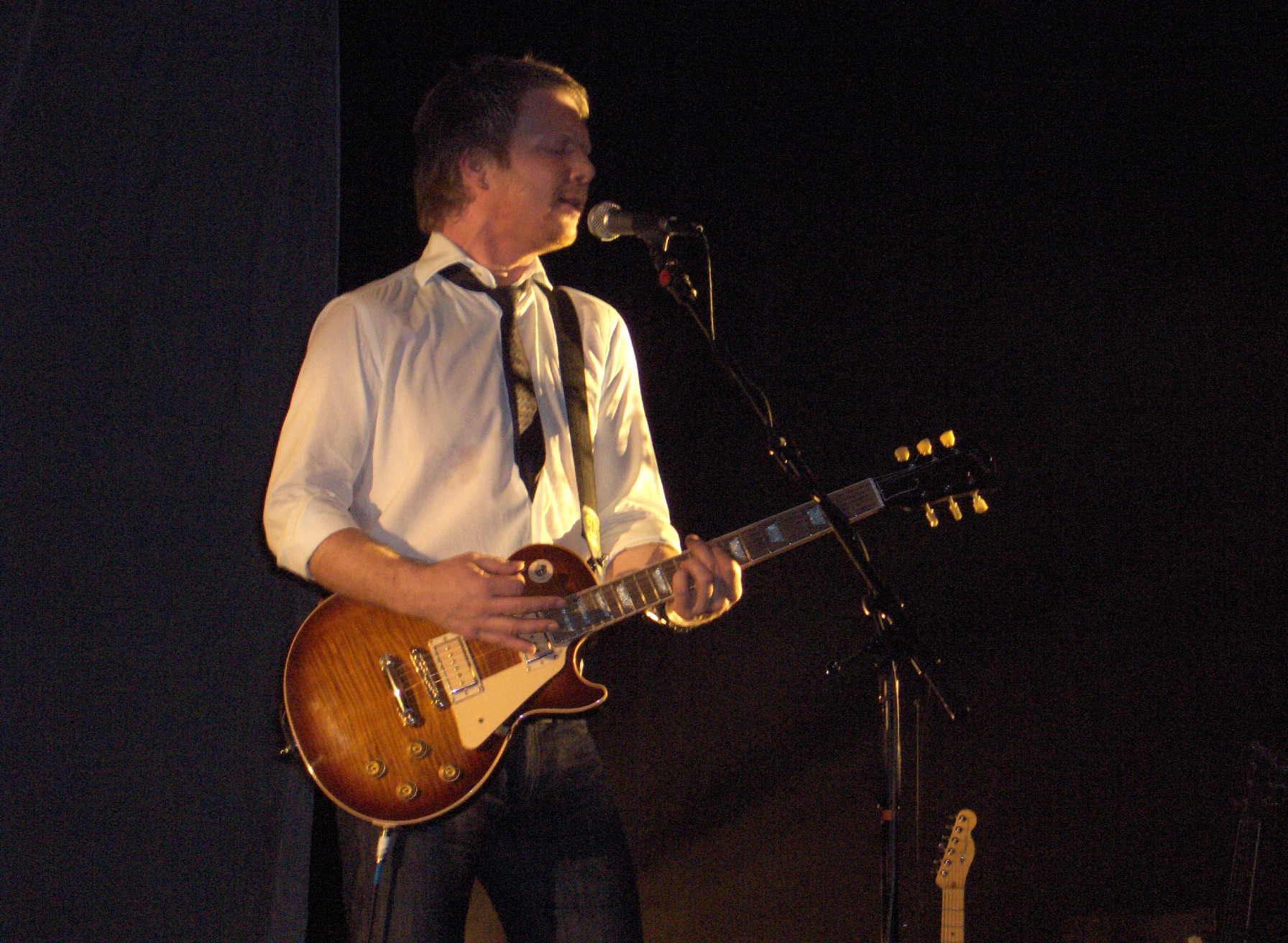 Description Elias Muri, guitarist with Norwegian pop singer Maria Mena Date5 December 2006SourceOwn workAuthorStefan VerkerkPermission (Reusing this file) eigen werk Elias Muri, guitarist with Norwegian pop singer Maria Mena